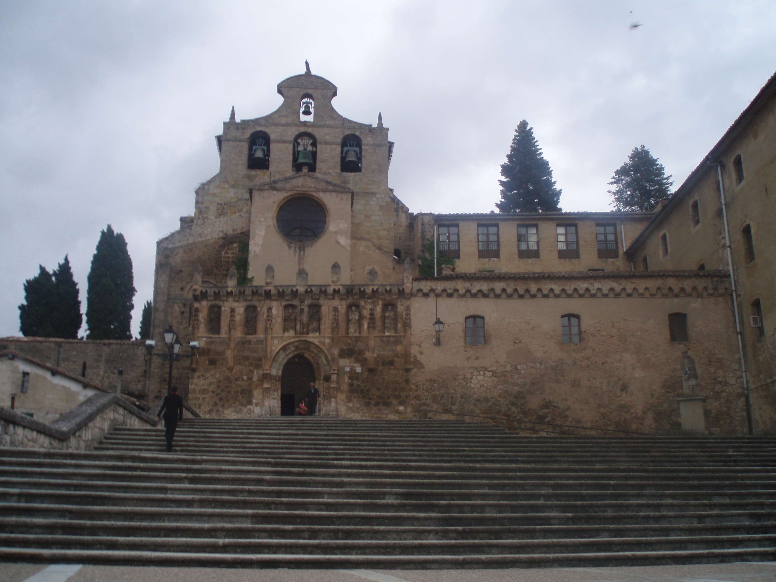 Monastery of Oña, in province of Burgos. (Spain).